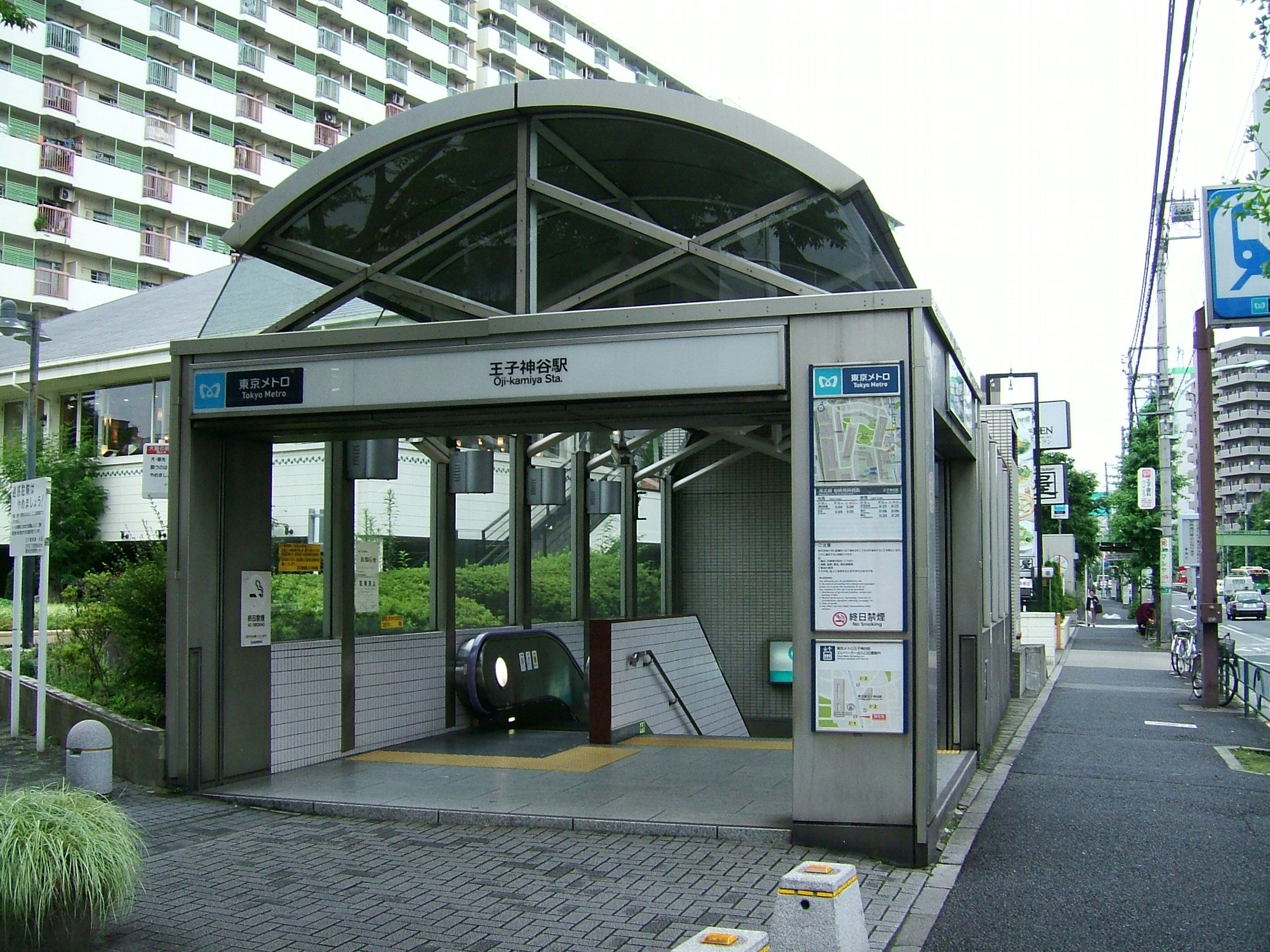 The no.1 entrance to Ōji-kamiya Station on the Tokyo Metro Namboku Line in Kita city, Tokyo, Japan